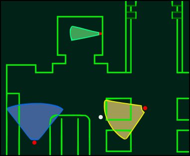 Representation of the Soliton Radar used in the Metal Gear Solid series.